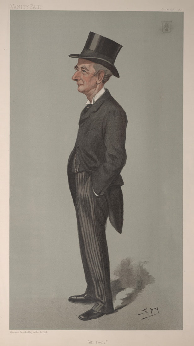 Statesmen No.737: Caricature of Sir WR Anson Bt MP. Caption reads: "All Souls"